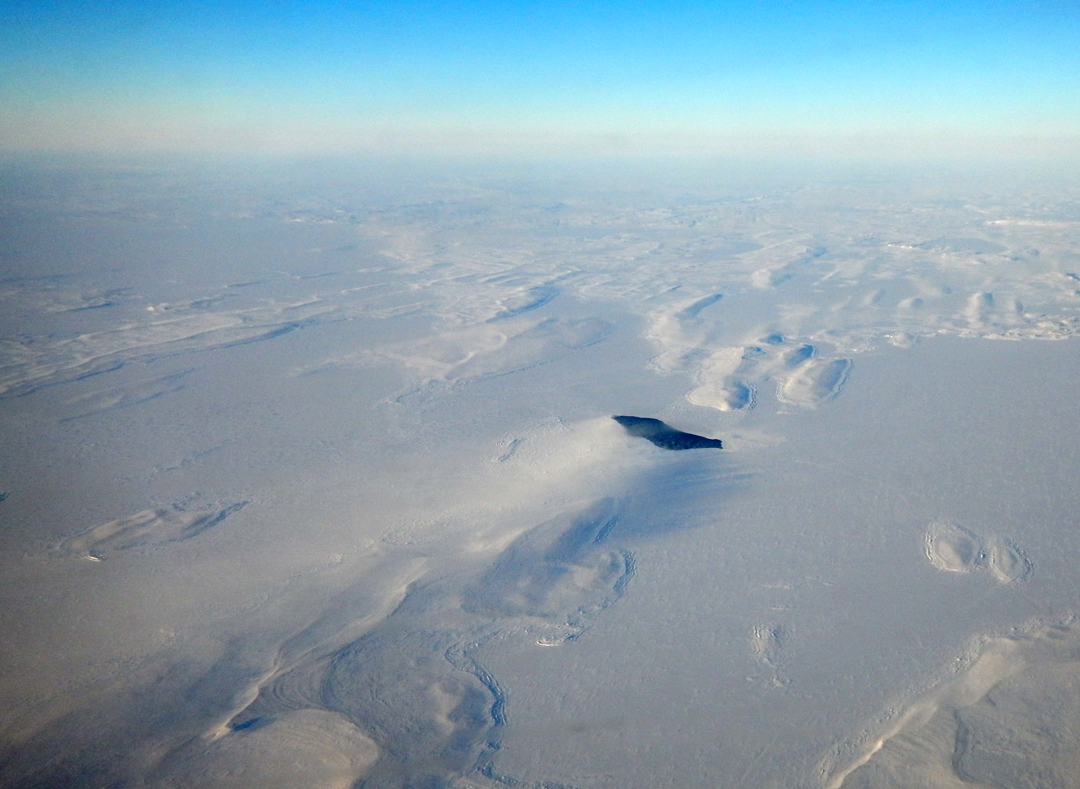 There are these small water patches that don't freeze all winter long. They occur in drumlin- and esker-festooned tidal flats between Arviat and Whale Cove, west shore of Hudson Bay. This one is in a channel between bays and likely kept open by tidal currents. I've been looking down at some half dozen scattered water patches in this locale for years and finally got lucky this winter. It was a clear day with a crisp wind providing a visible icy plume blowing offshore from a black patch of open water. Mile-high west-facing aerial view.